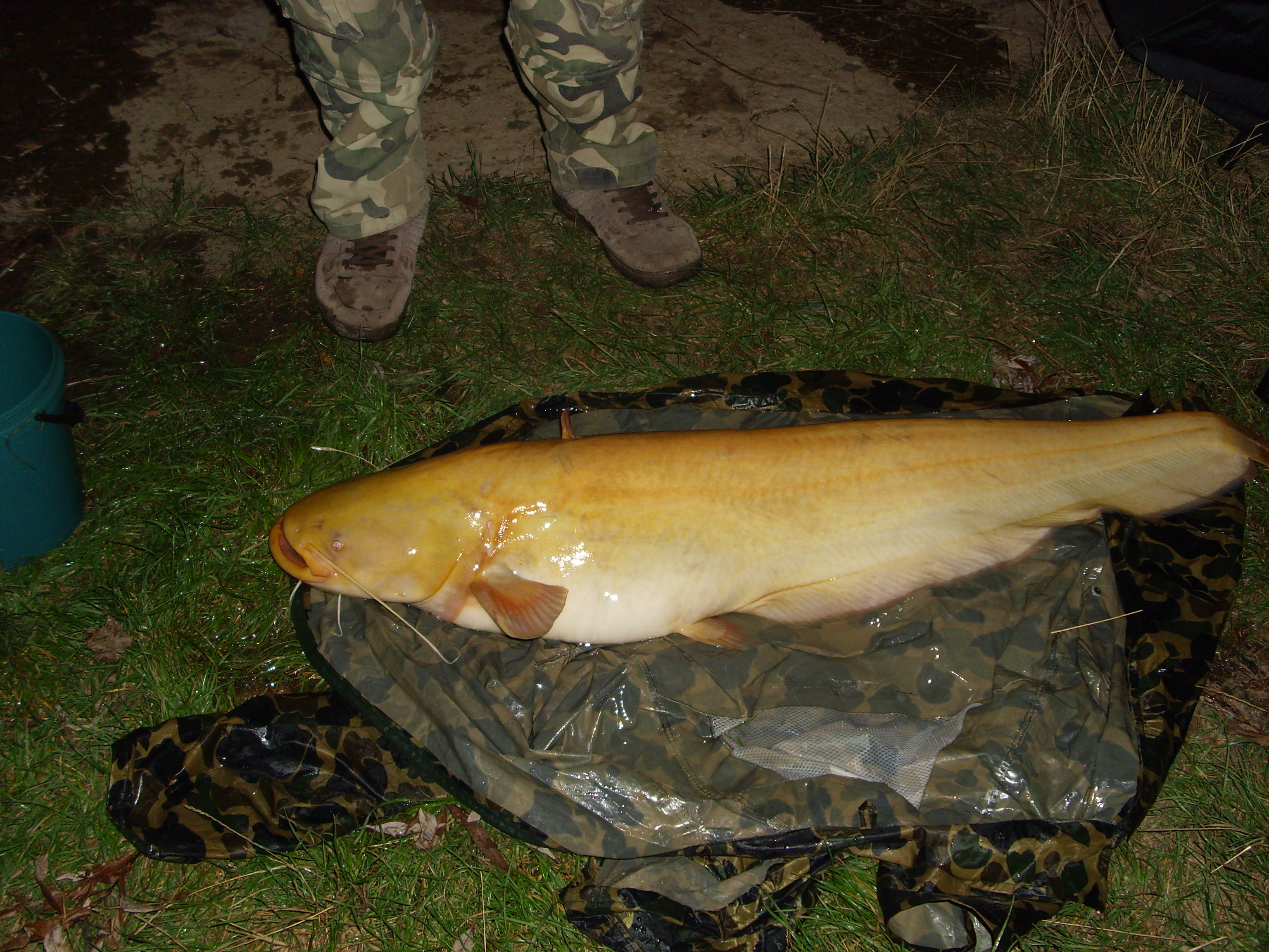 Albino wels catfish (Silurus glanis), 121 cm